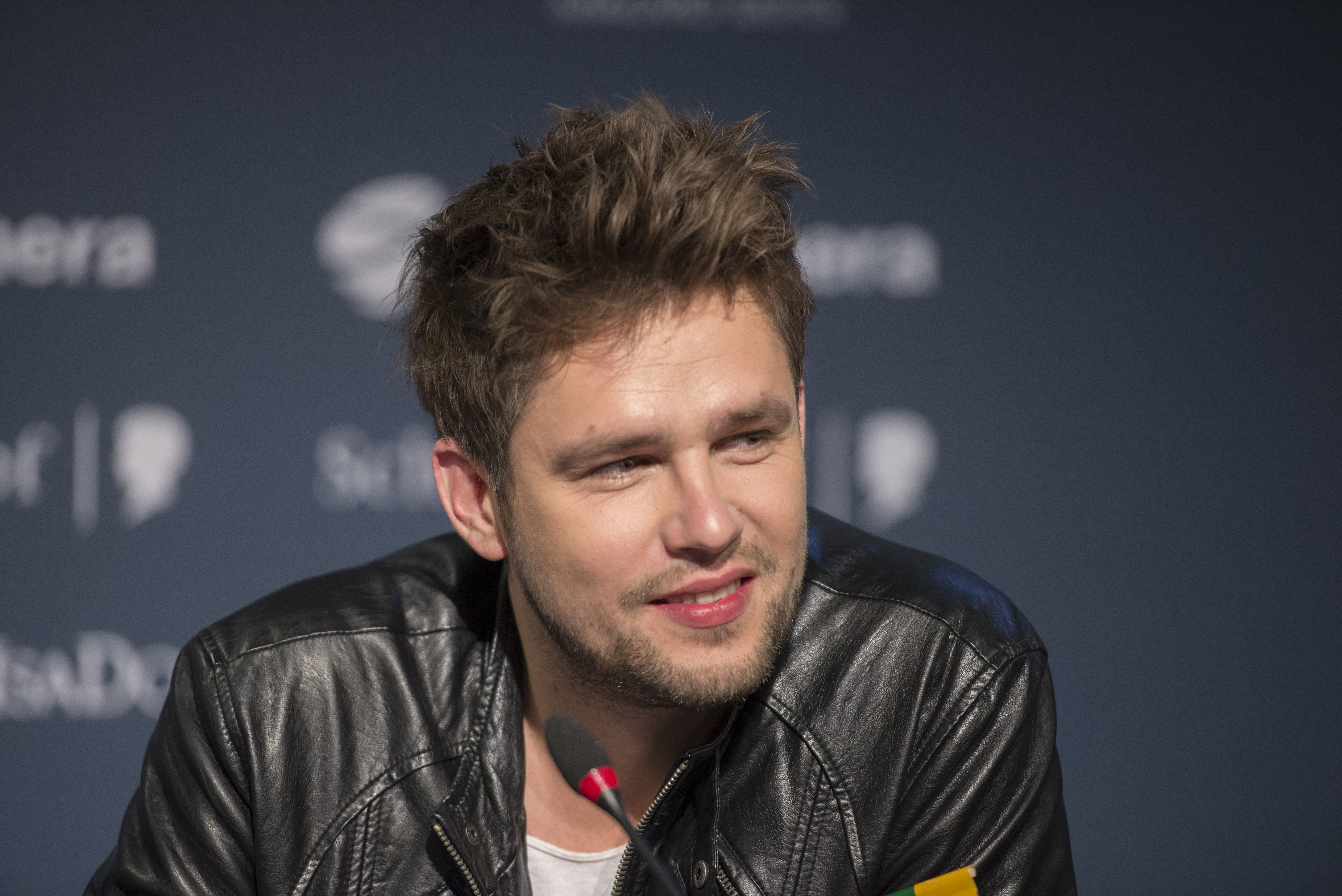 Andrius Pojavis at a press conference during the Eurovision Song Contest 2013 in Malmö. (Help translate this text)